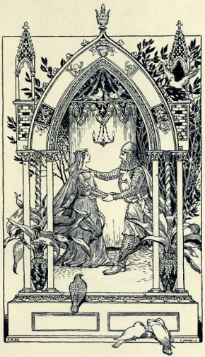 1900 Illustration by V. Jastrau for Aucassin og Nicolete in danish. Biliography : Sophus Michaëlis (Editor) (ill. V. Jastrau), Aucassin og Nicolete : En oldfransk kaerligheds-roman fra omtrent aar 1200, Kobenhavn, Reitzelske forlag (George C. Grøn), 1900, ill., 20cm, 95 p. (OCLC 63580421)